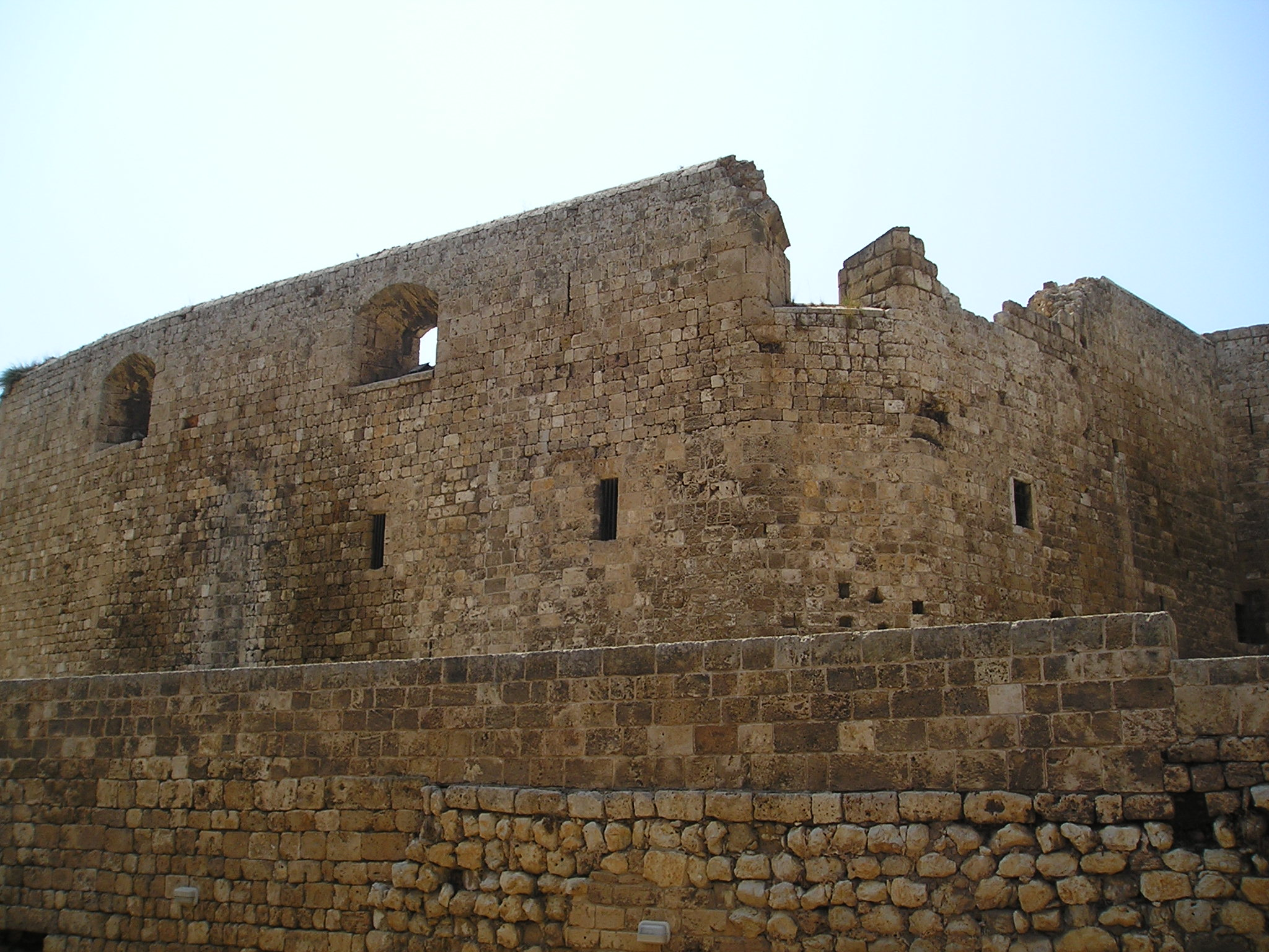 Tripoli, Lebanon - Citadel of Raymond de Saint-Gilles